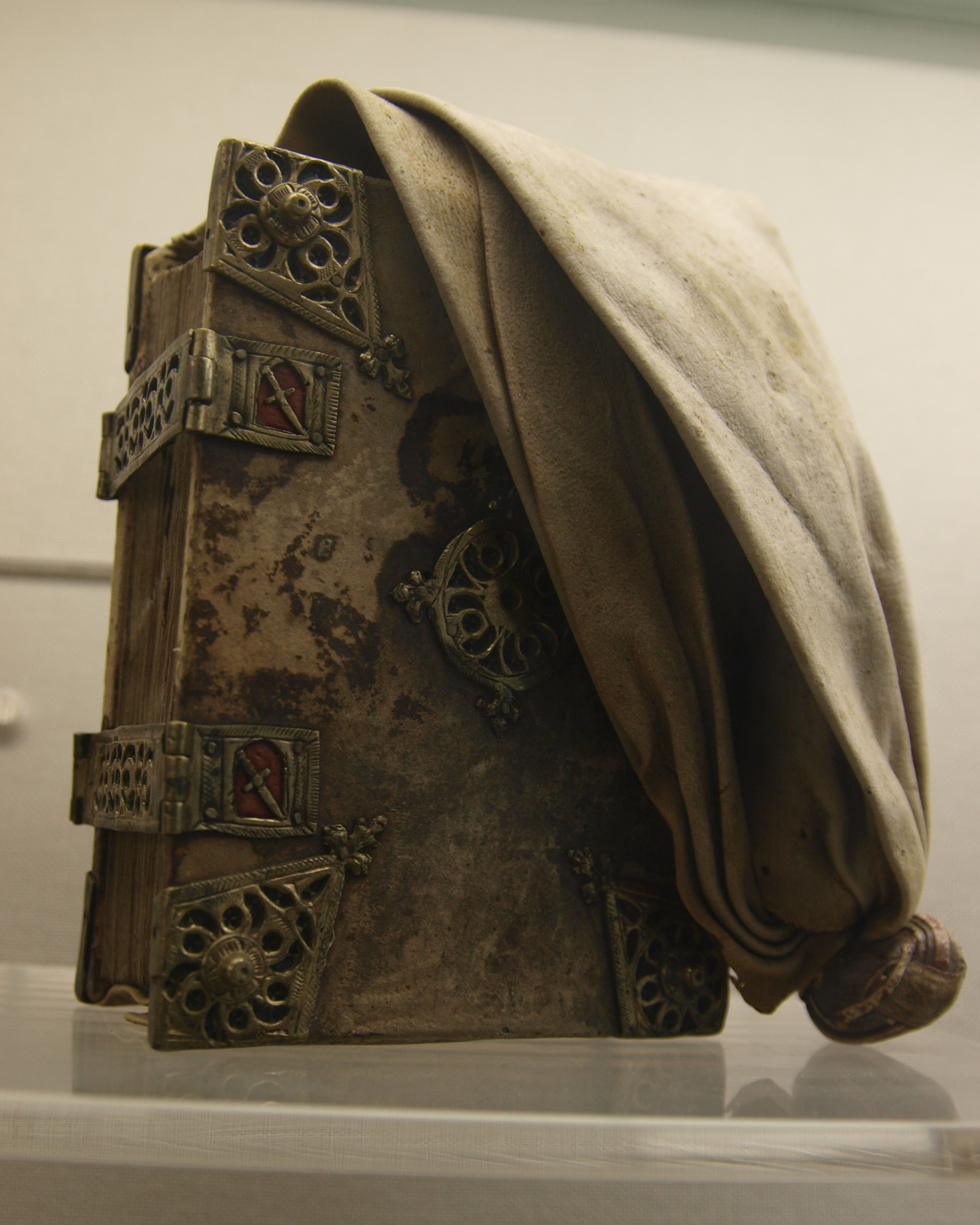 Girdle book pf Hieronymus Kress. Nuremberg, Germany 1471. Material: leather and brass fitting on wood, length 42 cm.